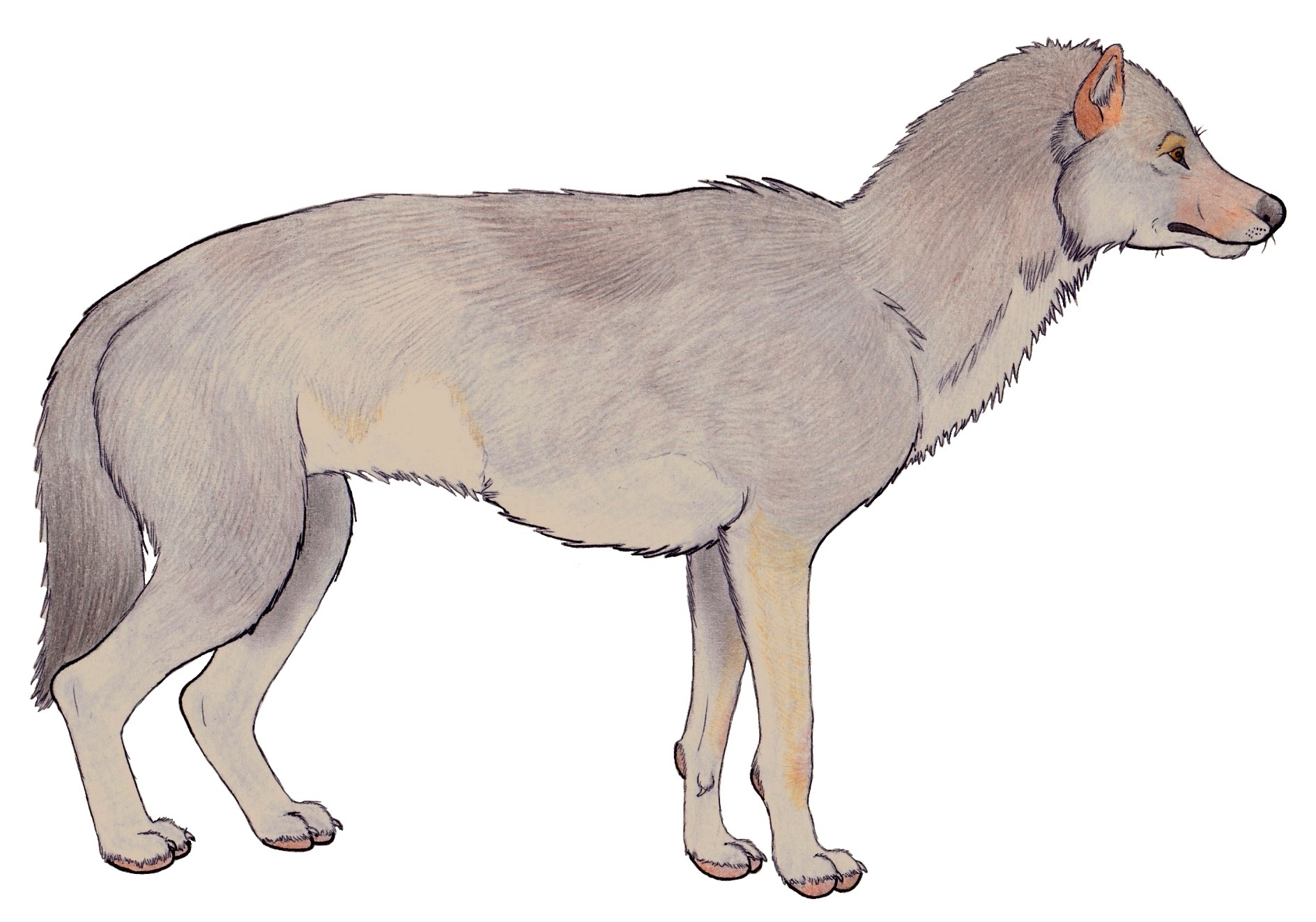 Pen/pencil reconstruction of Beringian wolf based on skeletal by Mauricio Antón.